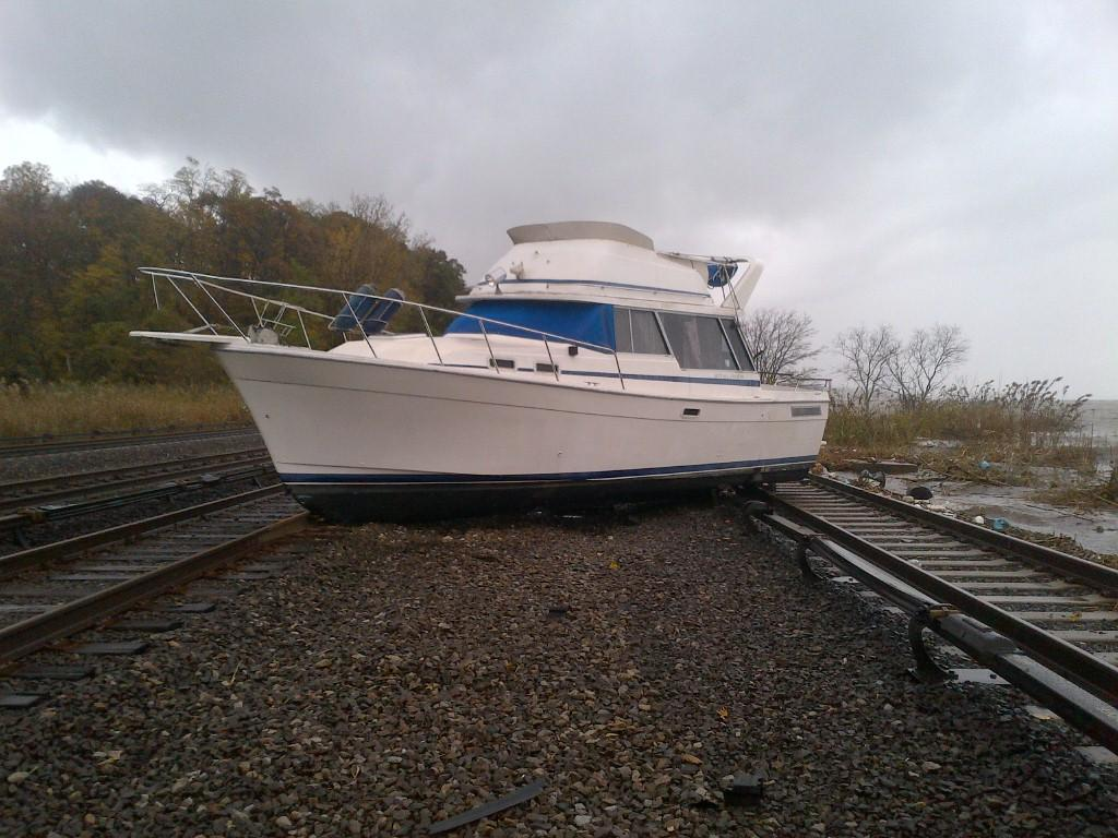 Another photo of the boat on the tracks near Metro-North's Ossining station.